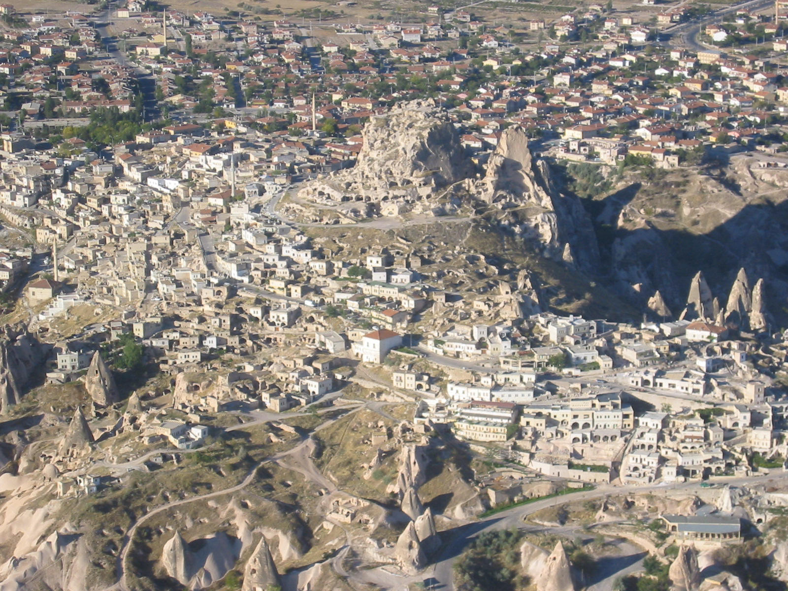 Uçhisar in Nevşehir province, Turkey, as seen from a balloon